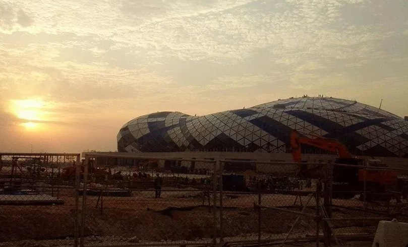 Lusail Sports Hall, Qatar